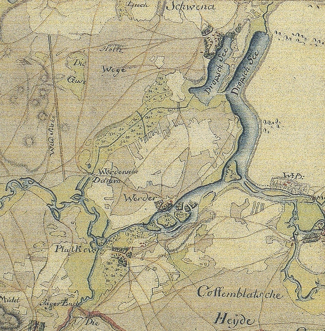 Village Werder and river Spree in a Schmettau map from 1767/87 (map extract). Today, Werder is a part of the municipality Tauche in the District Oder-Spree, Brandenburg, Germany.